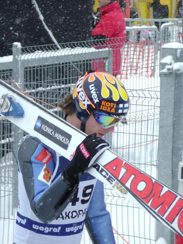 ski jumper Janne Ahonen from Finland during the World Cup in Zakopane on 27-1-2008